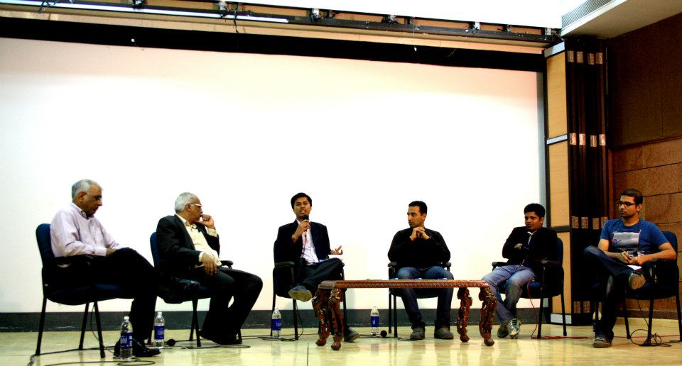 Panellists of Pragyan 2012 Crossfire